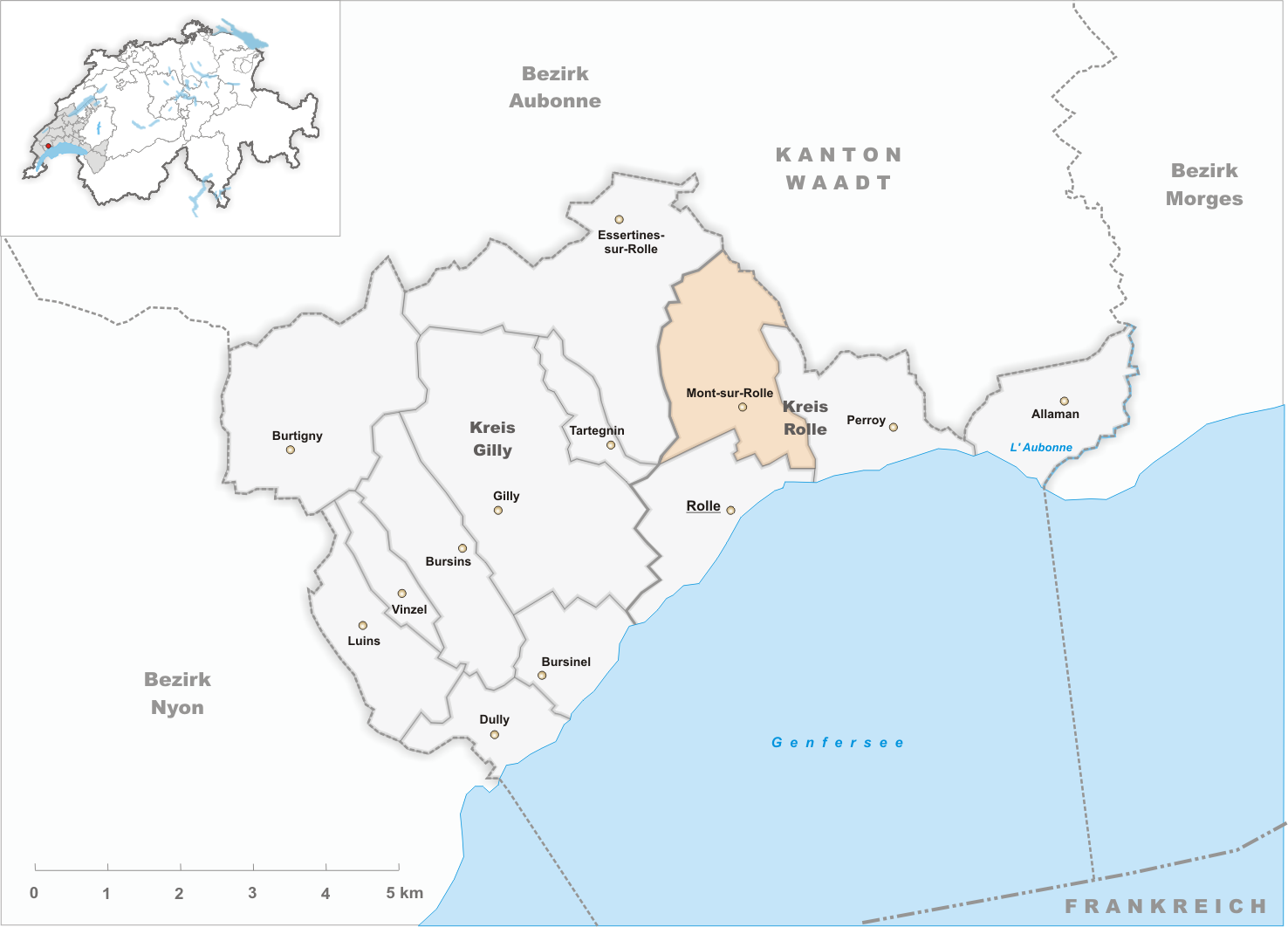 Municipality Mont-sur-Rolle